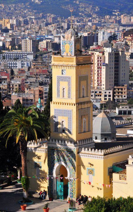 Sidi Soufi Mosque on Bejaia, Algeria